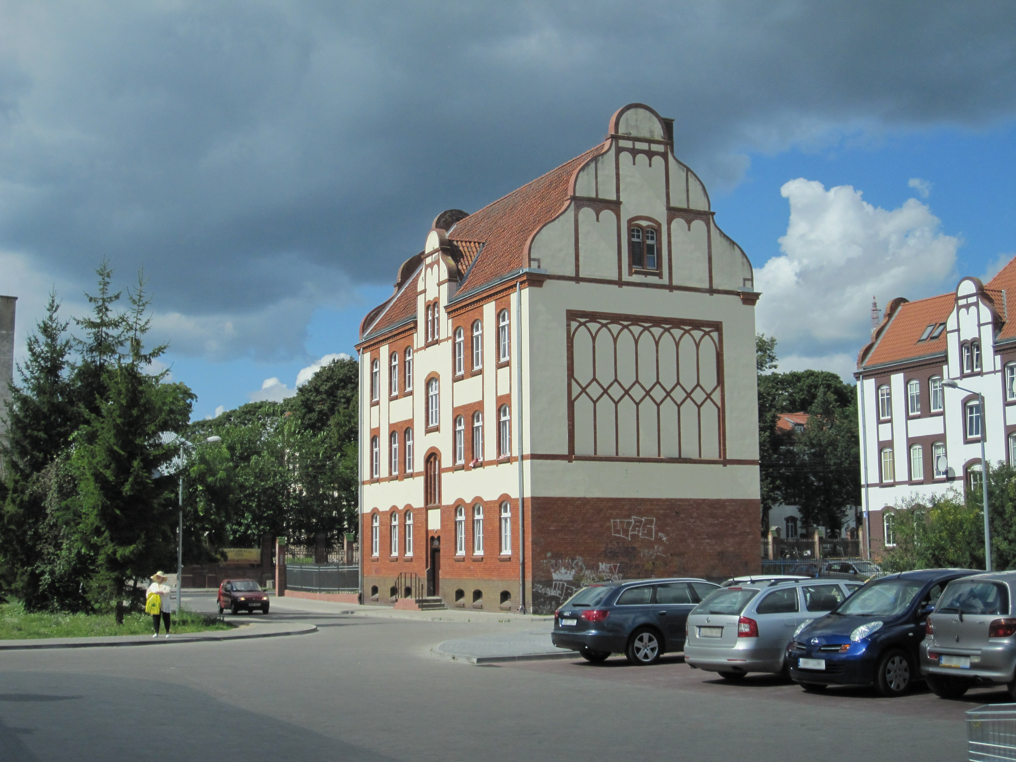 Former infantry barracks in Mrągowo